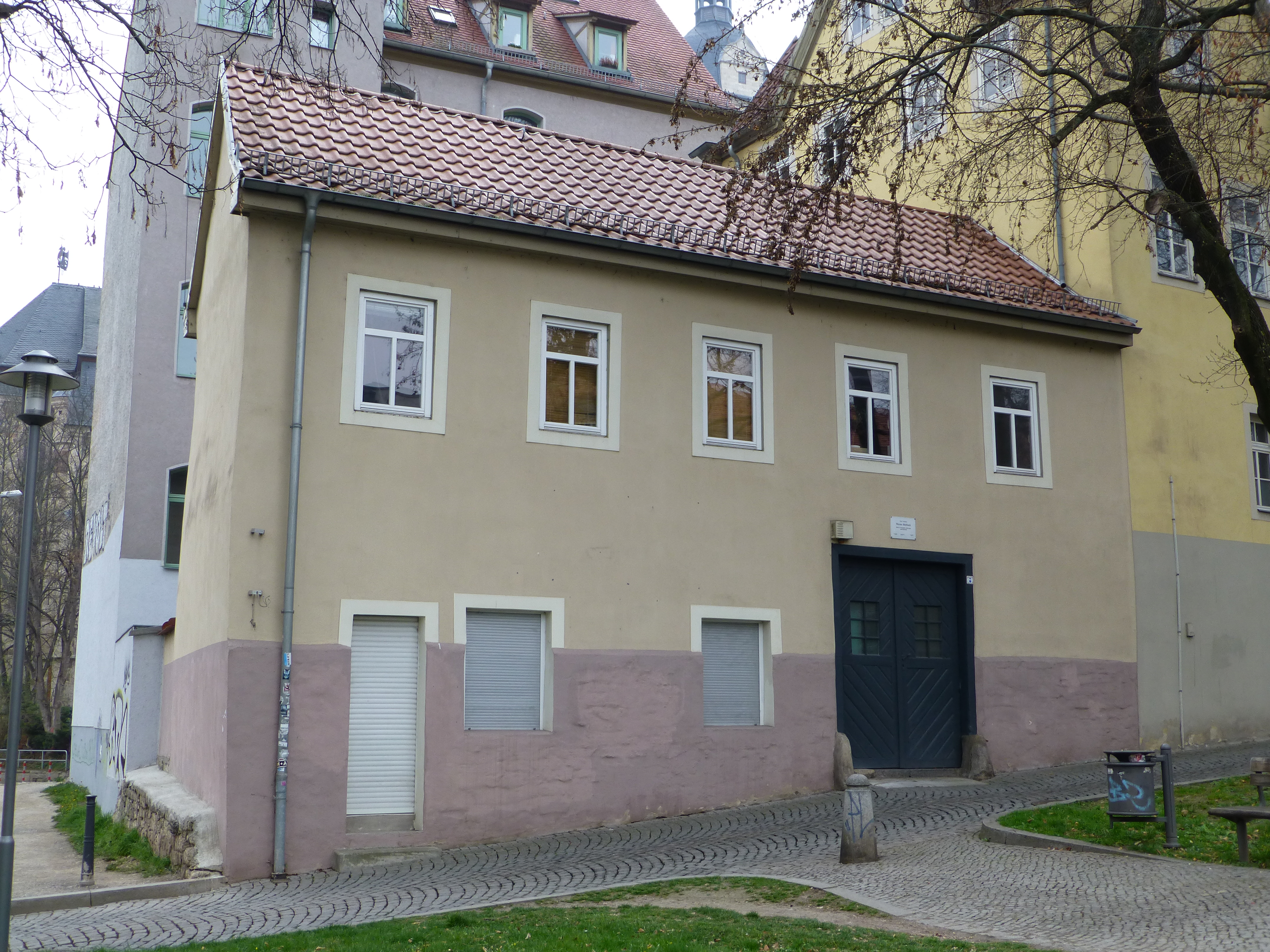 Former house of Werner Rolfinck, Fürstengraben 9 in Jena